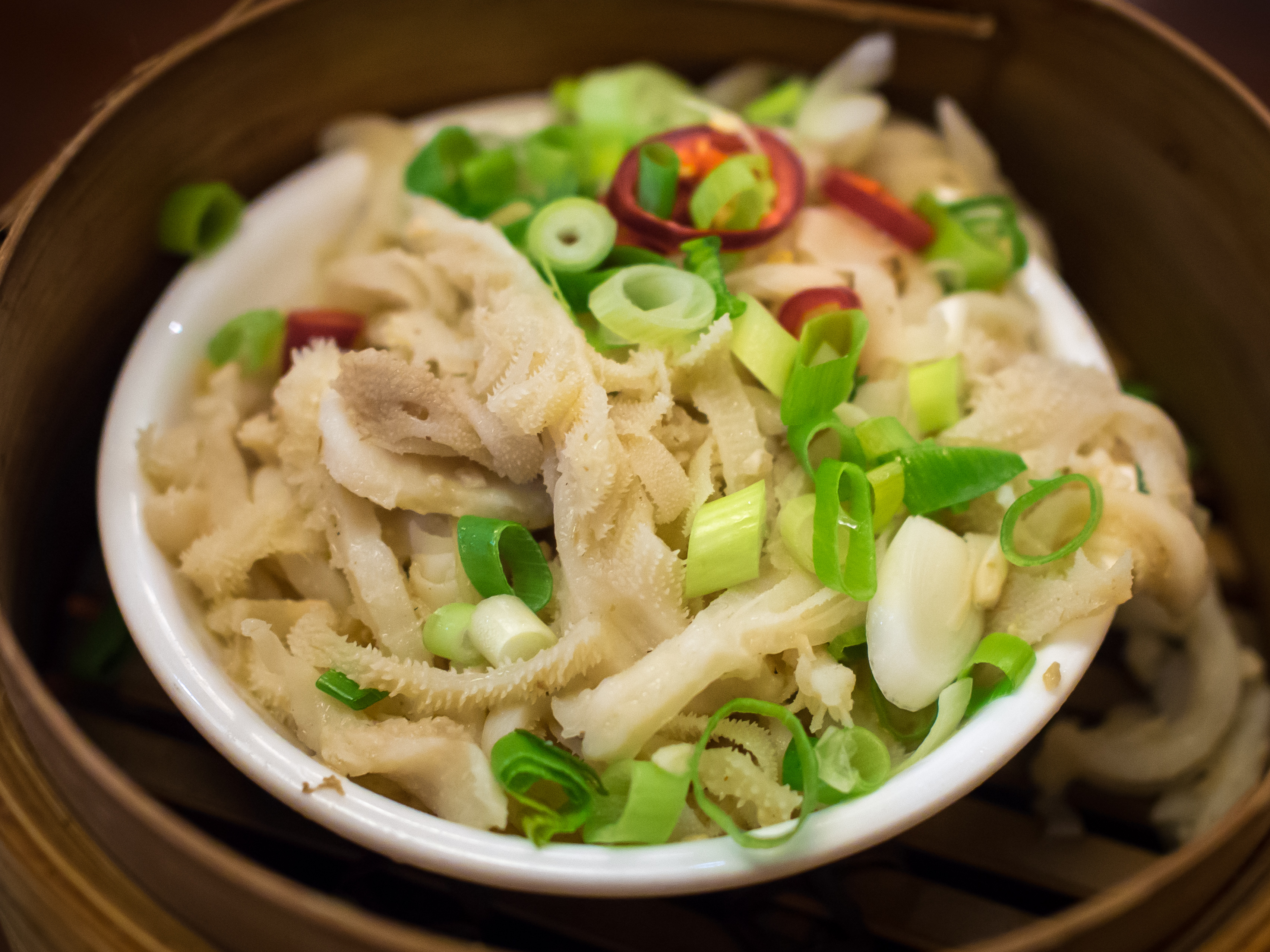 Ngau Pak Yip (牛百頁 / 牛柏葉, beef tripe dim sum) at a Cantonese restaurant in The Hague, Netherlands.